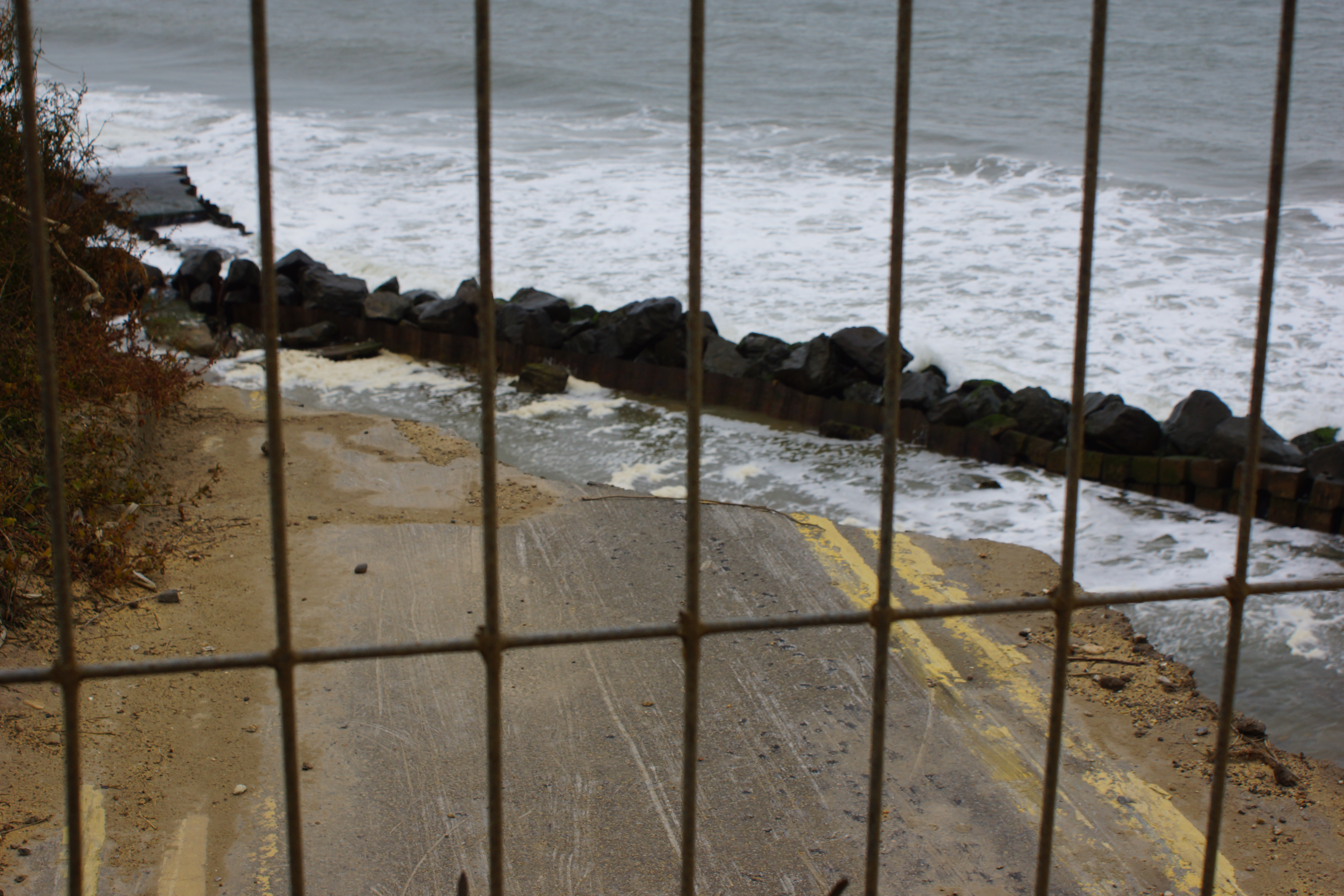 Road in Happisburgh, Norfolk, UK, washed out due to severe coastal erosion on the North Norfolk coast.